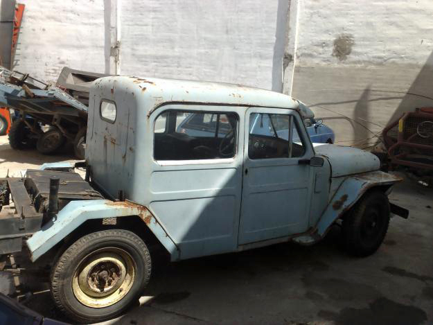 Rastrojero Crew Cab Diesel NP66 (1965-1969)